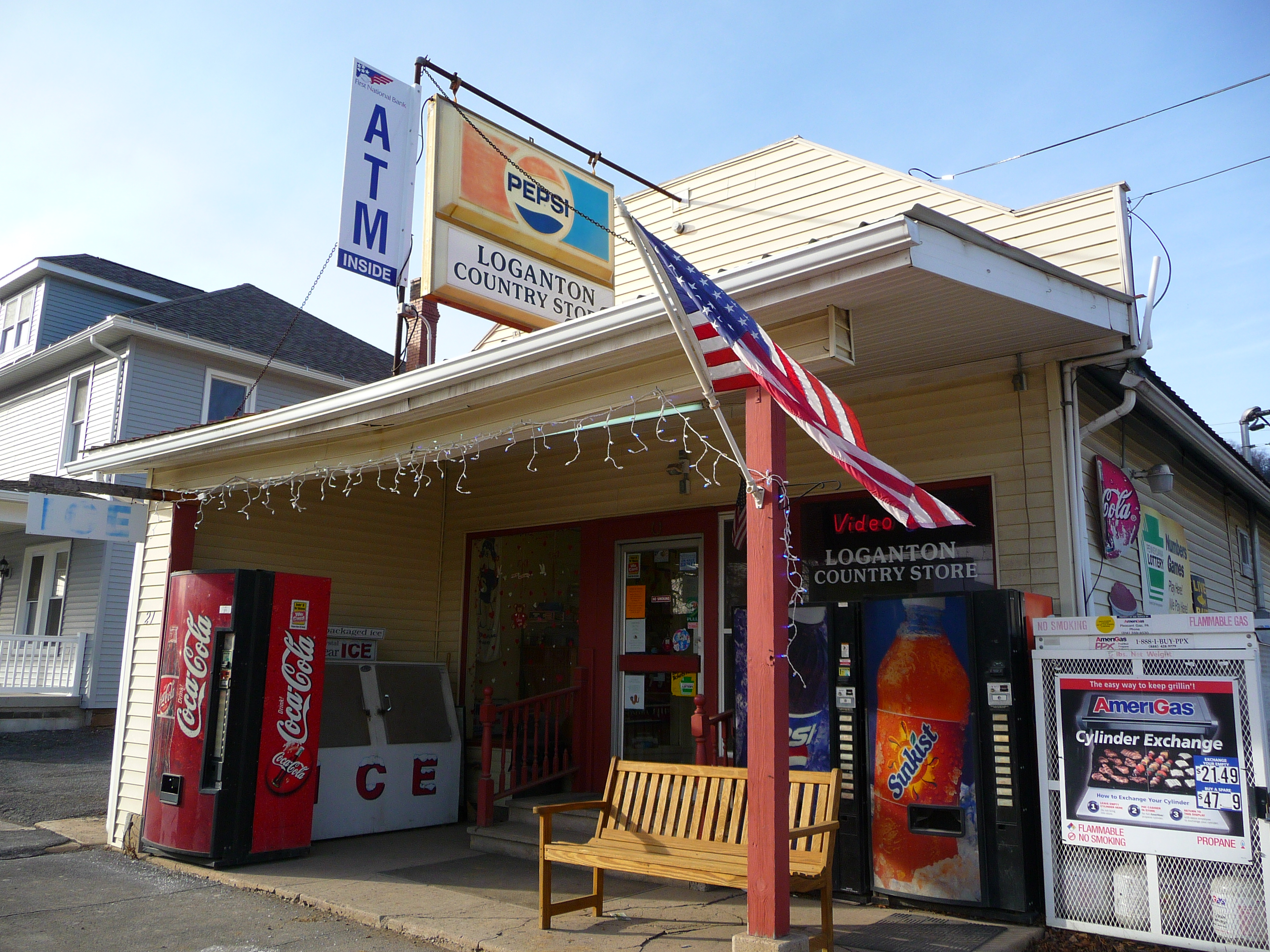 Loganton Country Store - Loganton, PA